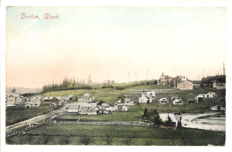 old postcard of Burton, Washington from around 1910